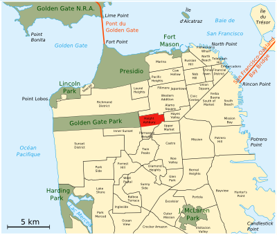 Locator map for Haight-Ashbury, San Francisco, California, United States